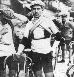 Cropped from Image:1919pelissier.jpg. Henri Pélissier